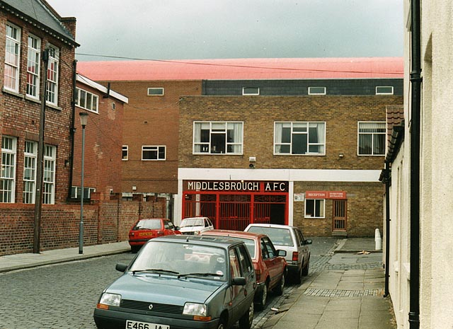 Ayresome Park main entranceThe main entrance to Middlesbrough FC's old ground taken in 1995. Modern view NZ4819 : Warwick Street The gates now stand outside of the Riverside Stadium